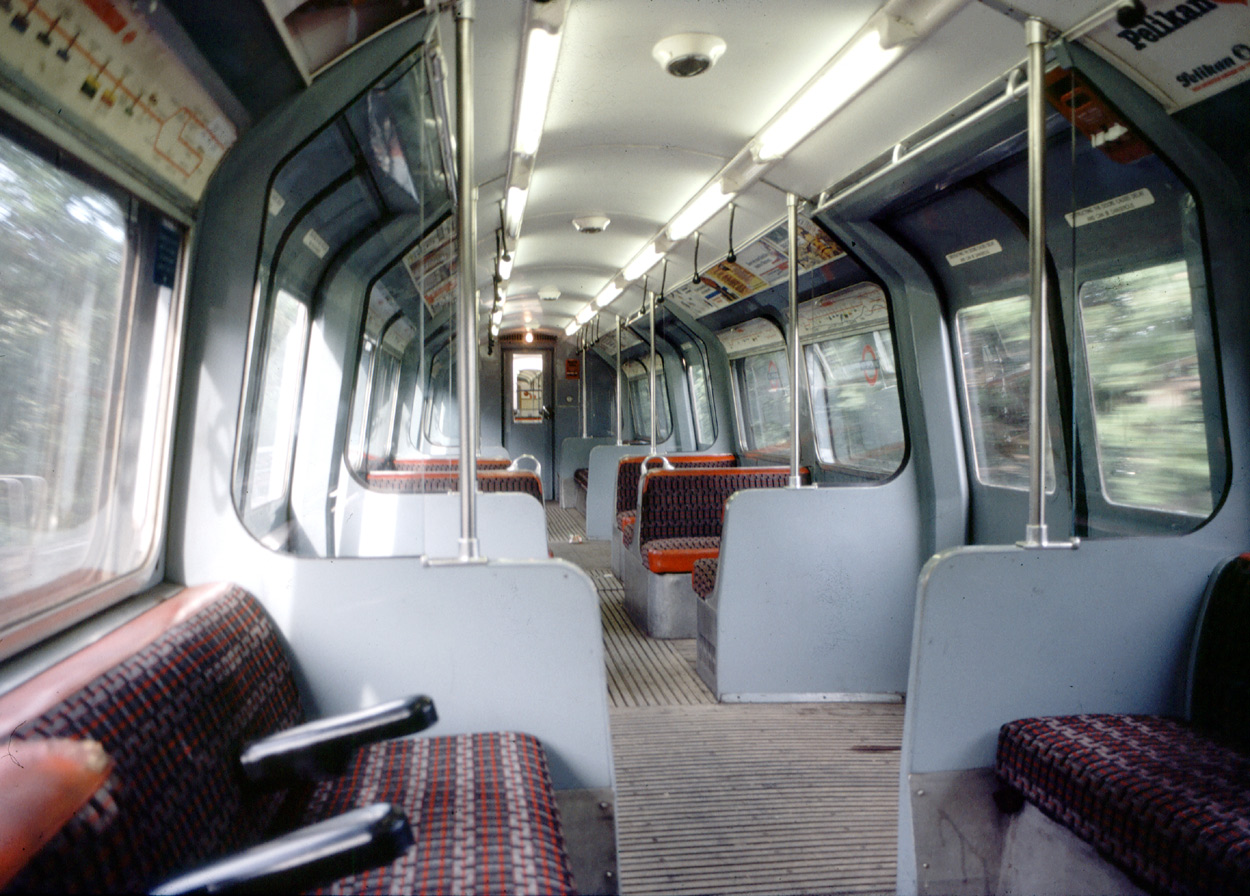 Inside 1960 tube stock Driving Motor car. Photographed by SP Smiler